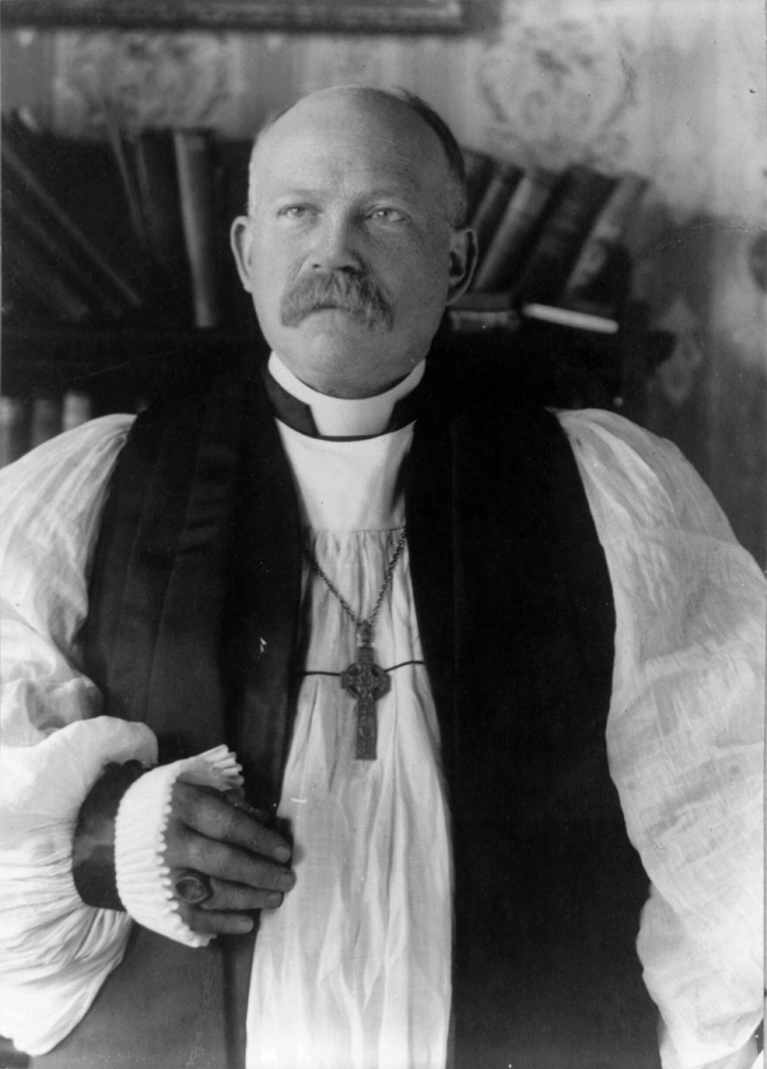 Alfred Harding, head-and-shoulders portrait